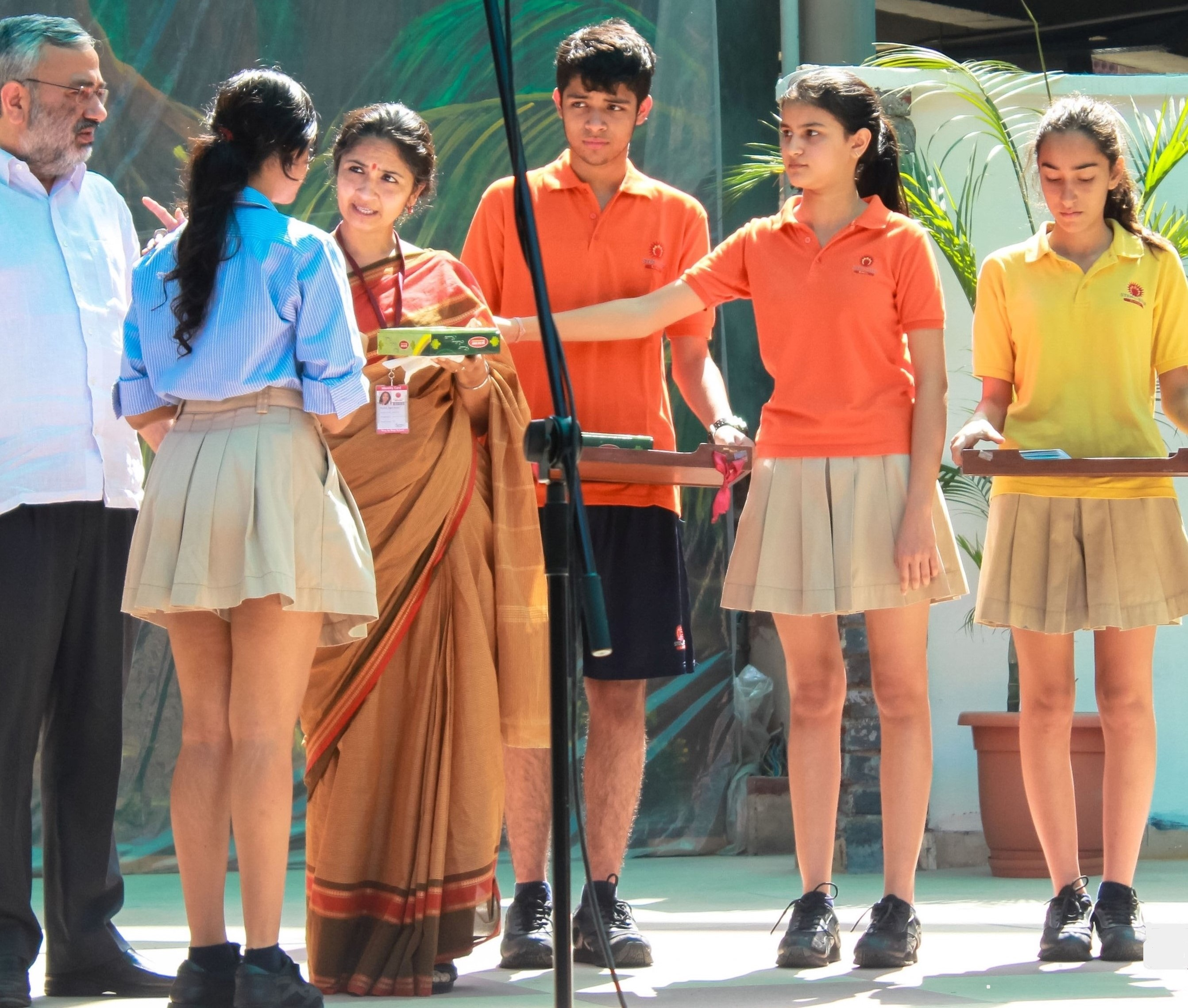 School uniform in Delhi NCR: Indian school girls (in short skirts / miniskirts) and schoolboy (in shorts). This school uniform of students is for the hot summer of India.